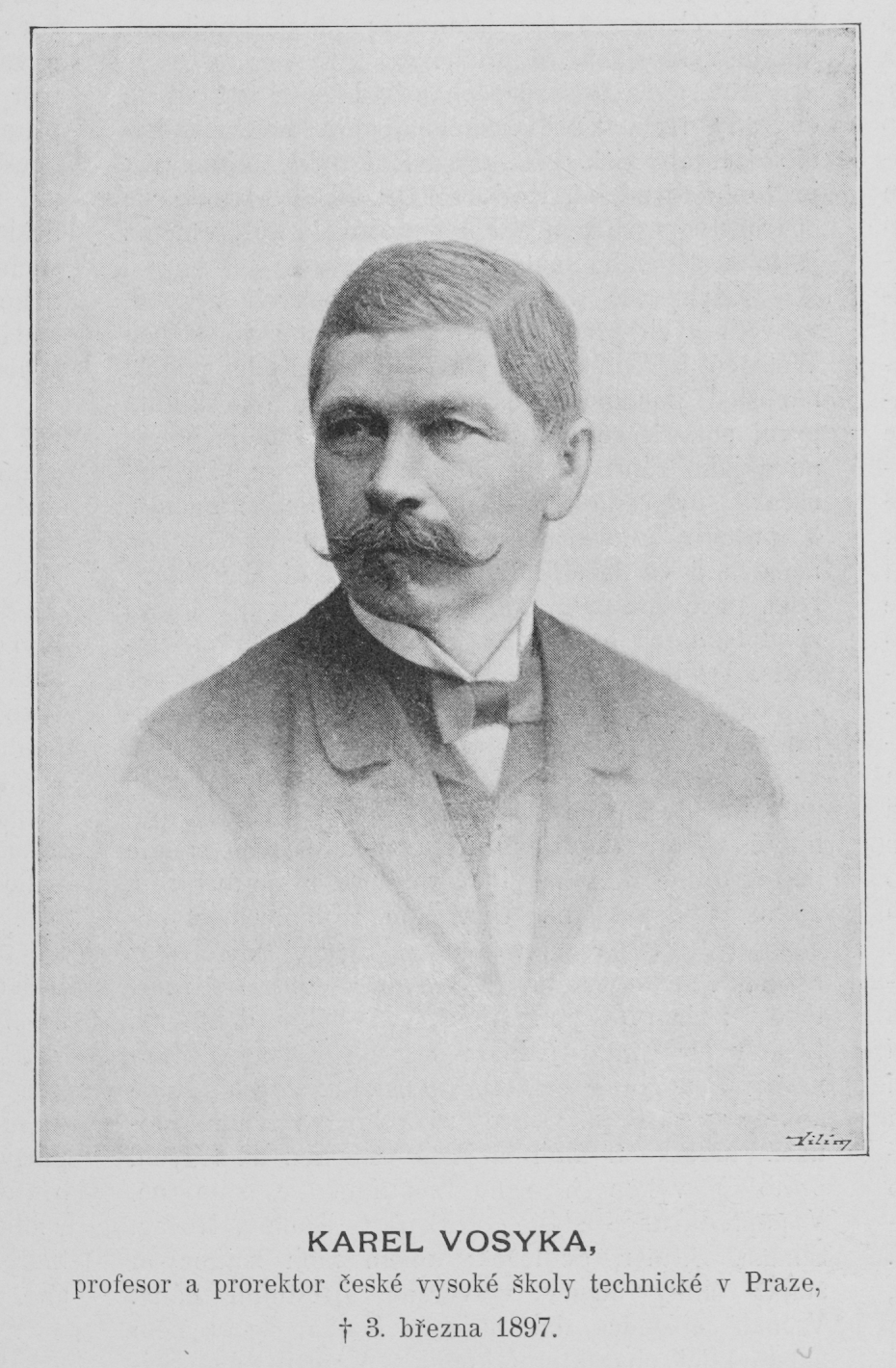 Portrait of Karel Vosyka (1847-1897), Czech professor of technology